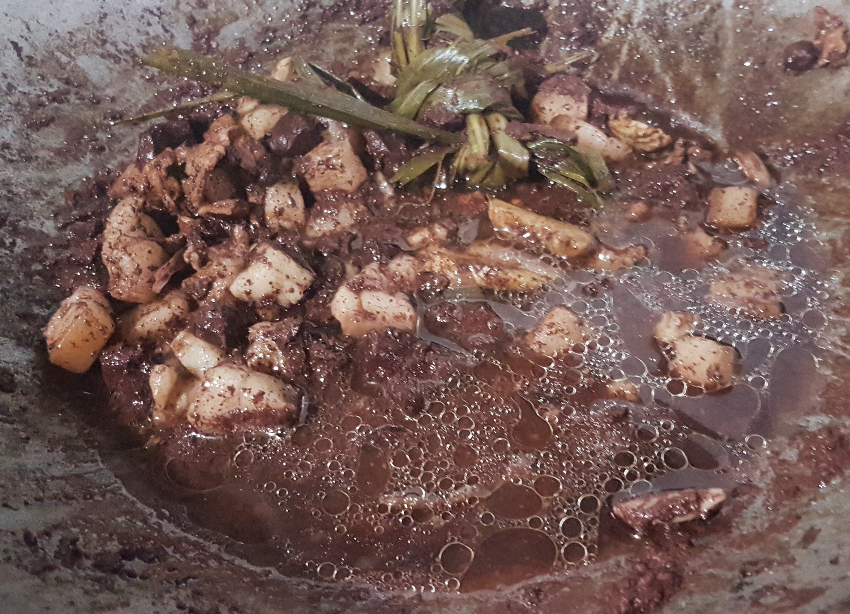 Dinuguan made with choice pork cuts and spiced with lemongrass